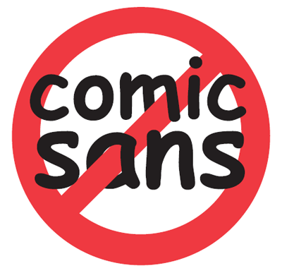 Sticker from the website " ", arguing for Comic Sans police ban.